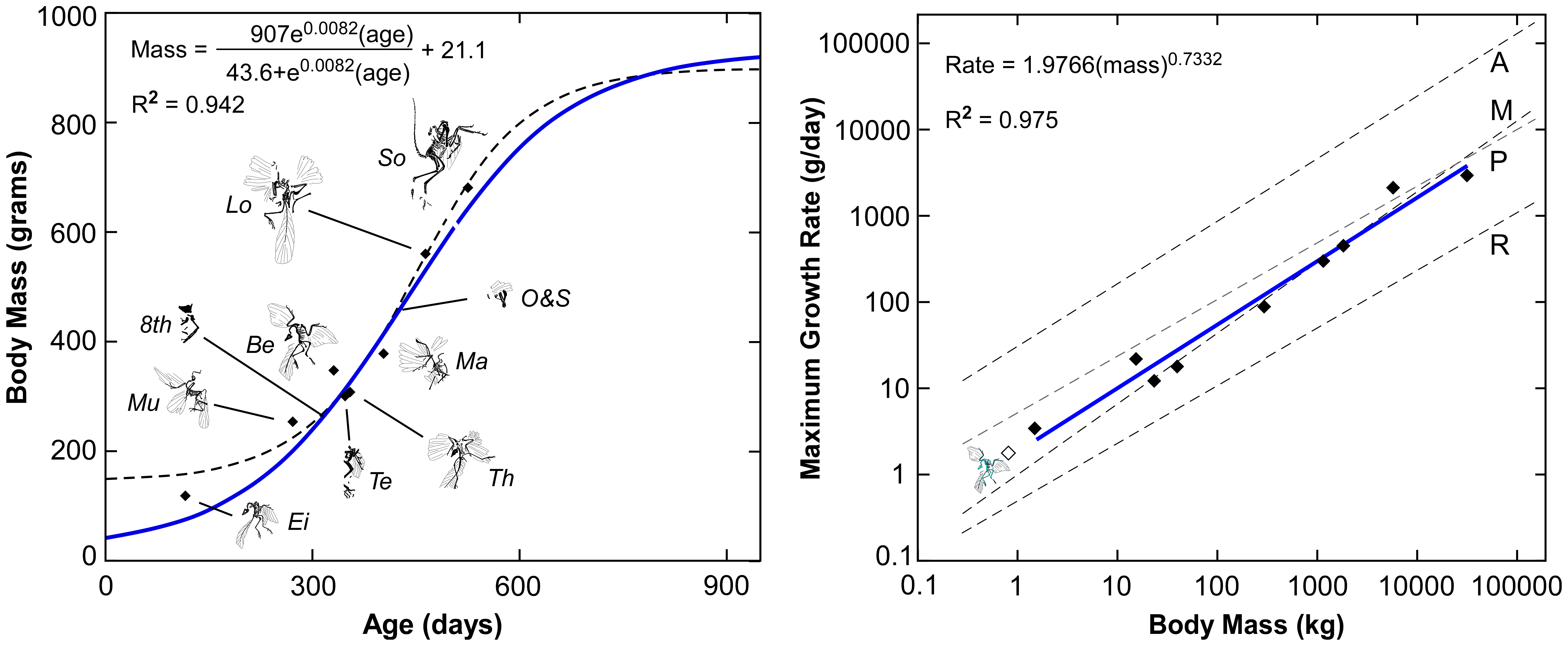 Figure 9. Growth depictions for Archaeopteryx. (Left) The size and estimated age for all ten specimens are depicted. The growth curves are based upon age and size estimates (diamonds) for the eight specimens where femoral length is known. The dashed line represents the best fit for the unconstrained statistical analysis with hatchling and adult size undefined. The solid line represents the best fit when hatchling and adult size are constrained. (Right) The maximal growth rates from these analyses (1.87–2.2 g/day; hollow diamond) fit expectations (1.83–1.87 g/day; [31]) for same-sized non-avialan dinosaurs (solid line) – animals that grew like slow growing endotherms, here compared to marsupials (M). The Archaeopteryx estimates are three times lower than typical rates for extant precocial land birds (5.7 g/day; P], 15 times lower than altricial land birds (28.6 g/day; A), and four times higher than typical rates for extant reptiles (0.46 g/day; R) [32]. Specimens designations: Ei = Eichstäat, Mu = Munich, 8th = 8th Exemplar, Te = Teyler, Th = Thermopolis, Be = Berlin, Ma = Maxberg, O&S = Exemplar der Familien Ottmann & Steil, Lo = London, So = Solnhofen.